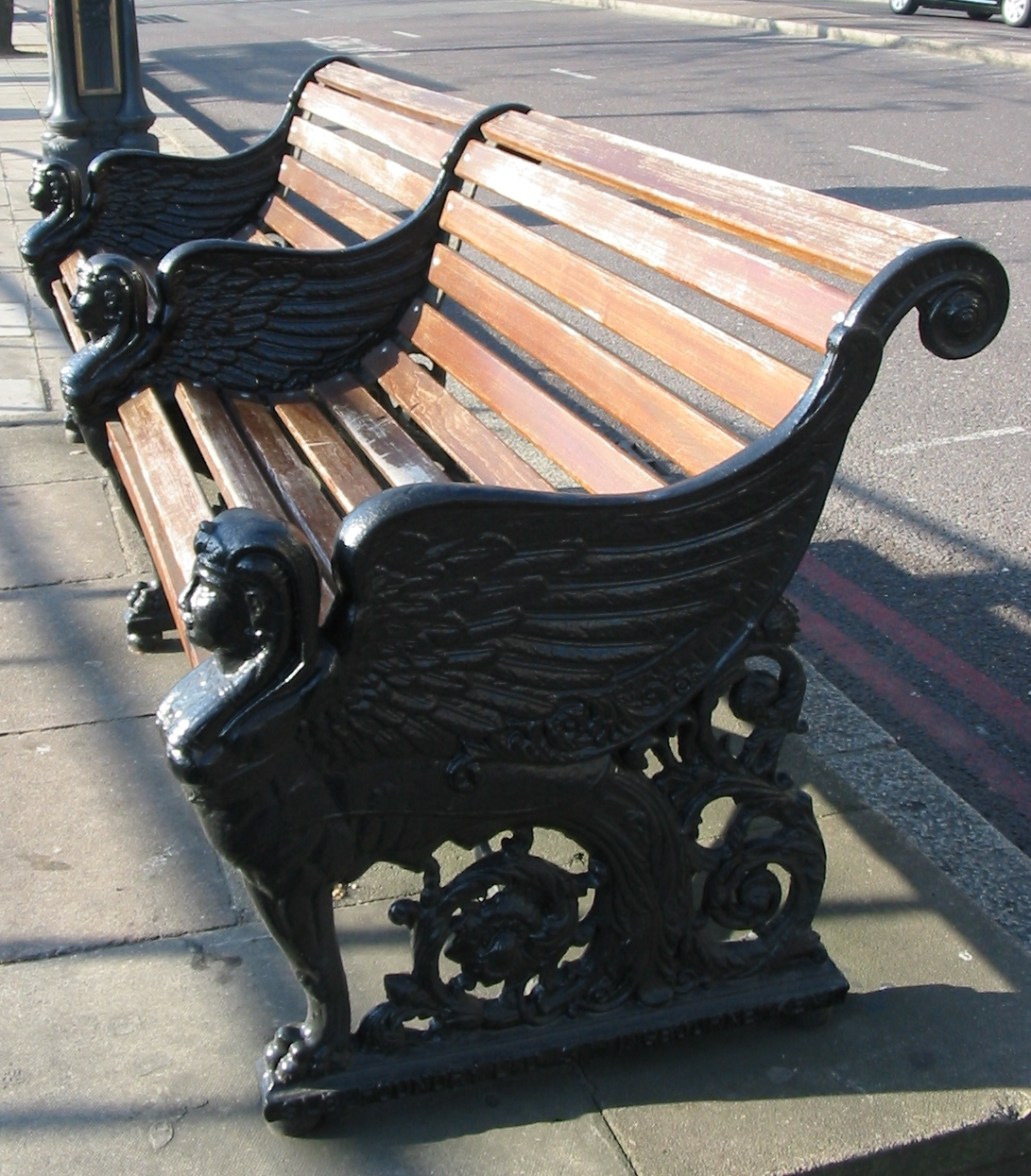 London